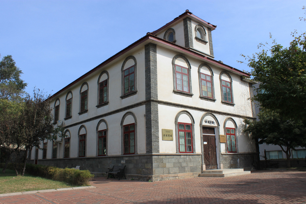 Unknown